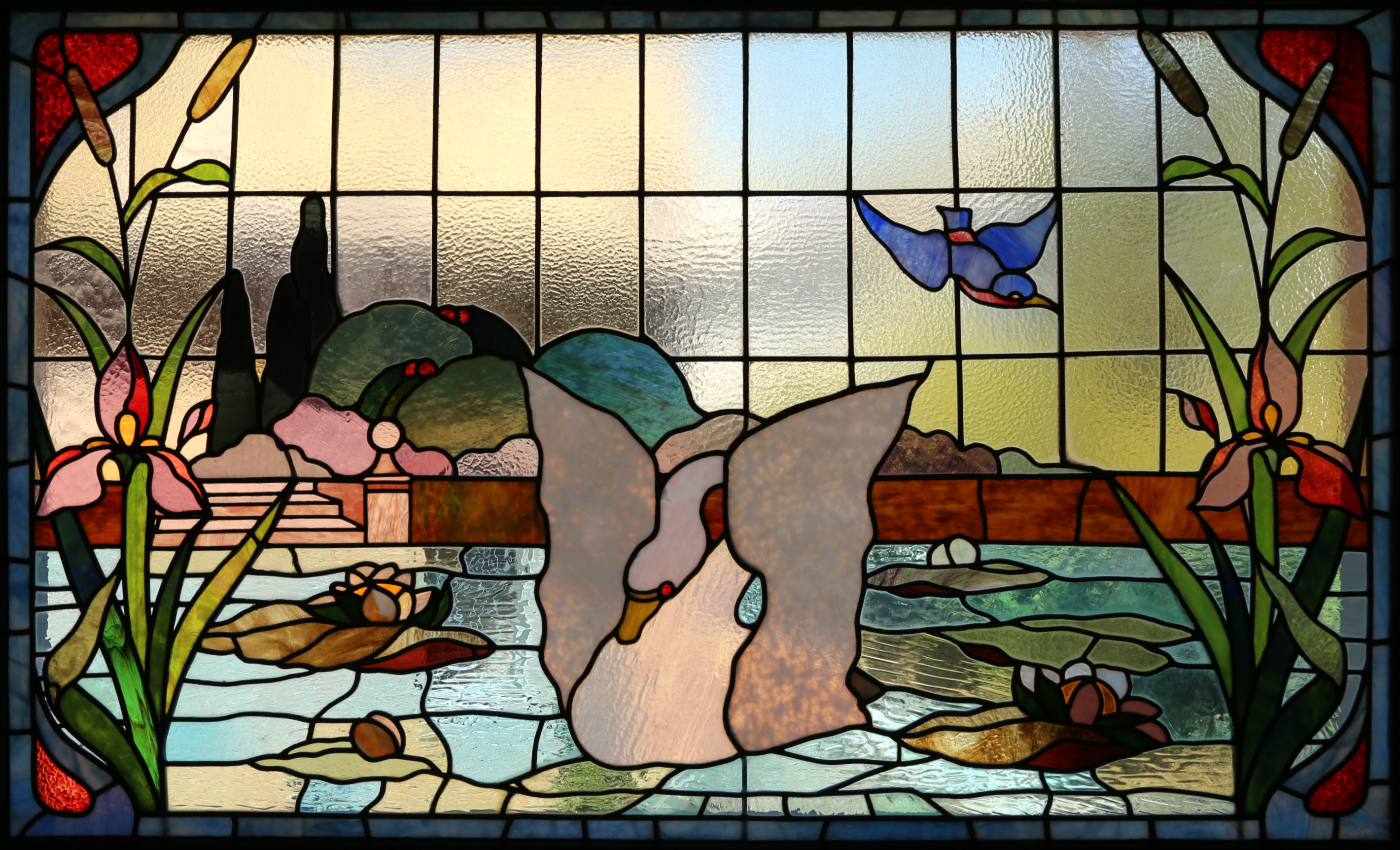 Casina delle Civette (Rome) - Interiors